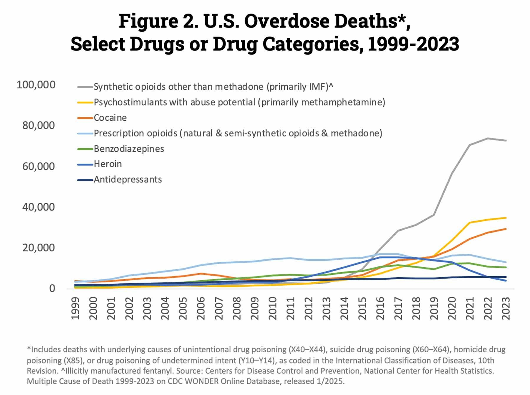 From source (emphasis and links added): "National Drug Overdose Deaths—Number Among All Ages, 1999-2017. Among the more than 70,200 drug overdose deaths estimated in 2017, the sharpest increase occurred among deaths related to fentanyl and fentanyl analogs (other synthetic narcotics) with more than 28,400 overdose deaths. Source: CDC WONDER"